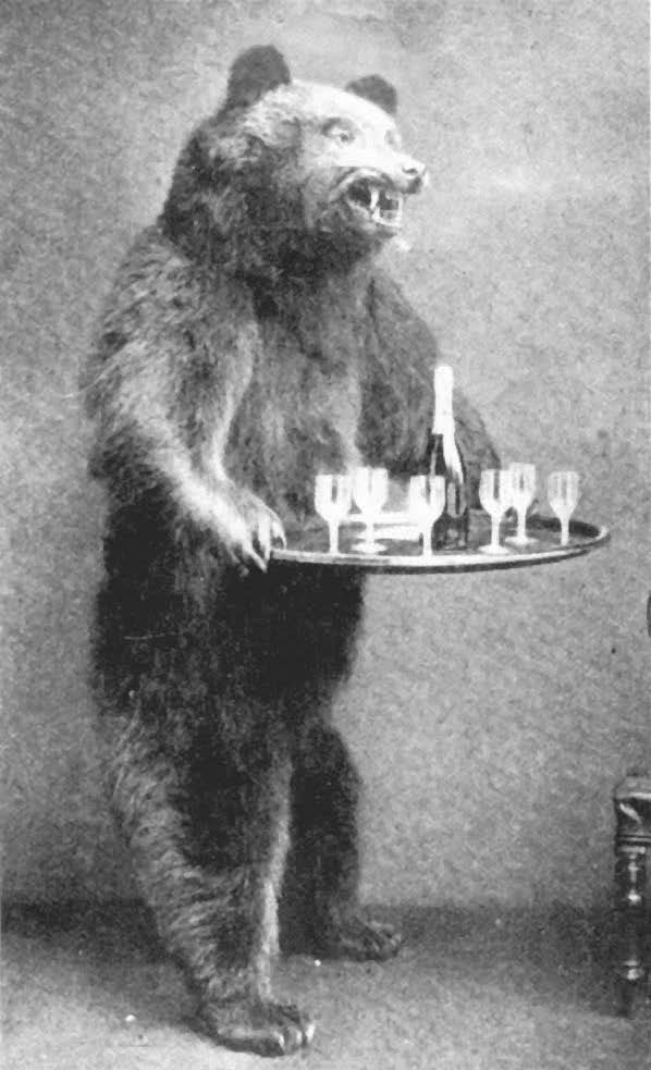 An example of Wardian Furniture.